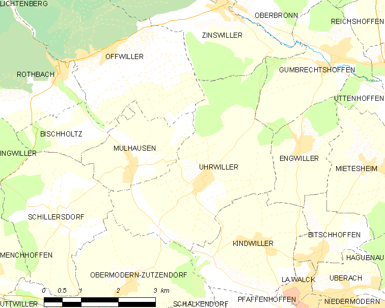 Map of French municipality